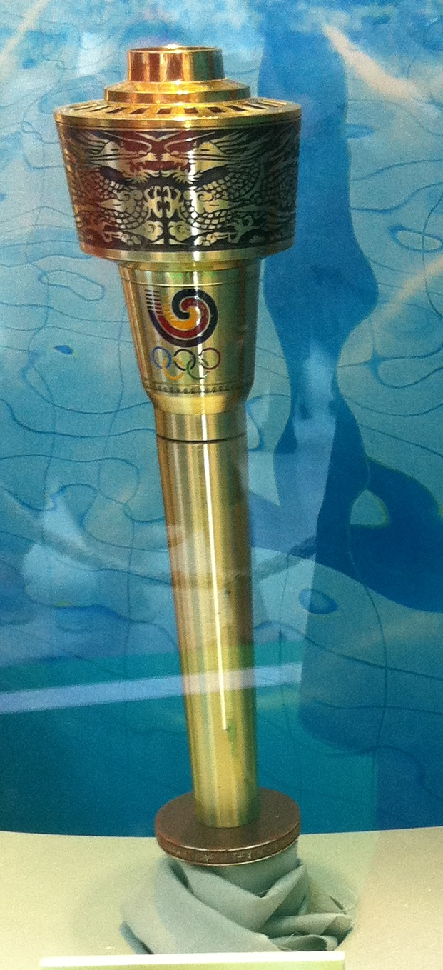 1988 olympic torch